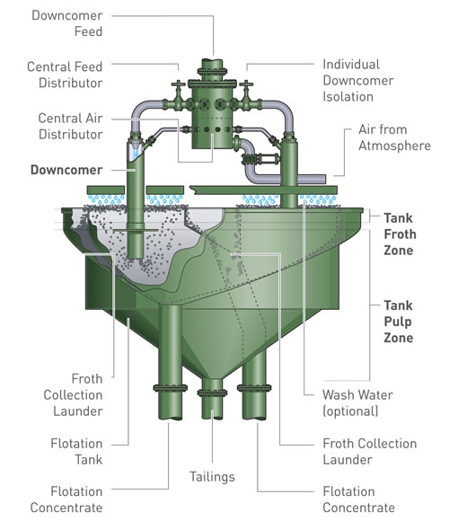 Drawing illustrating the operating principles of the Jameson Cell.